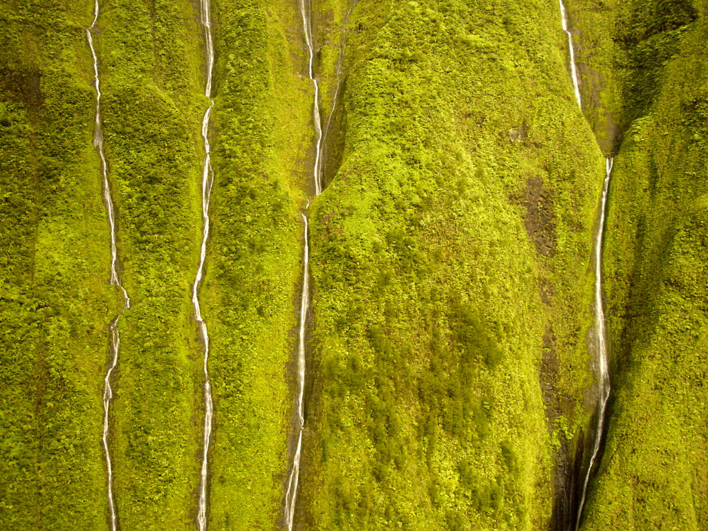 Waterfalls in the Wailua valley headwall, Kauai, HI.